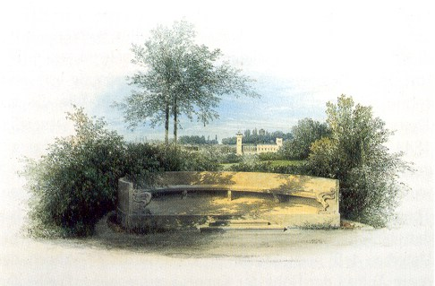 "Latin bench" at Mount of Ruins, Potsdam